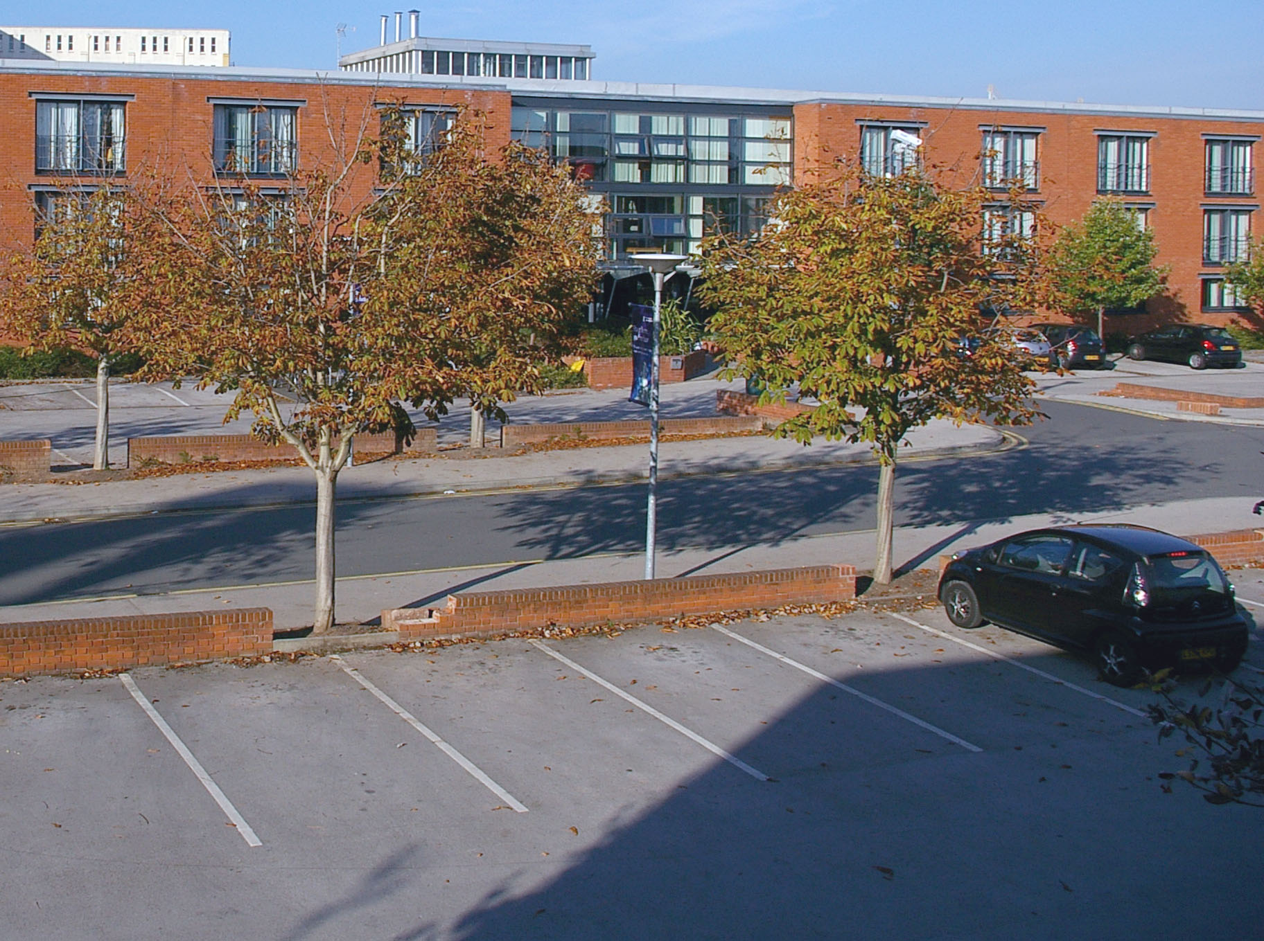 Taken by an undergraduate from a window opposite at Newark Hall.